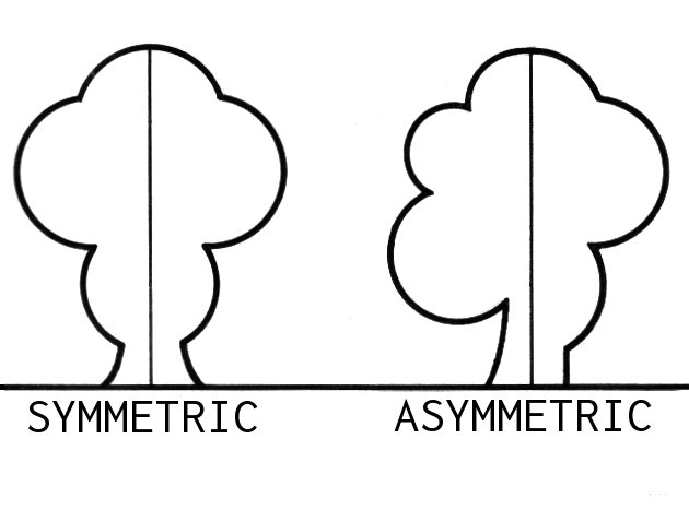 line art drawing demonstrating asymmetric.